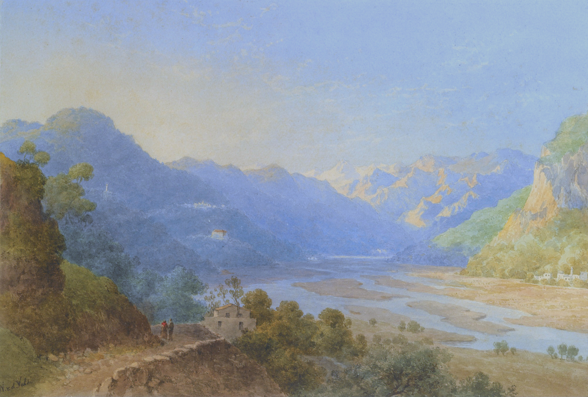 Travellers in a Mountainous Landscape with Snow Covered Peaks 25.2 x 36.8 cm. signed l.l. watercolour over pencil on paper